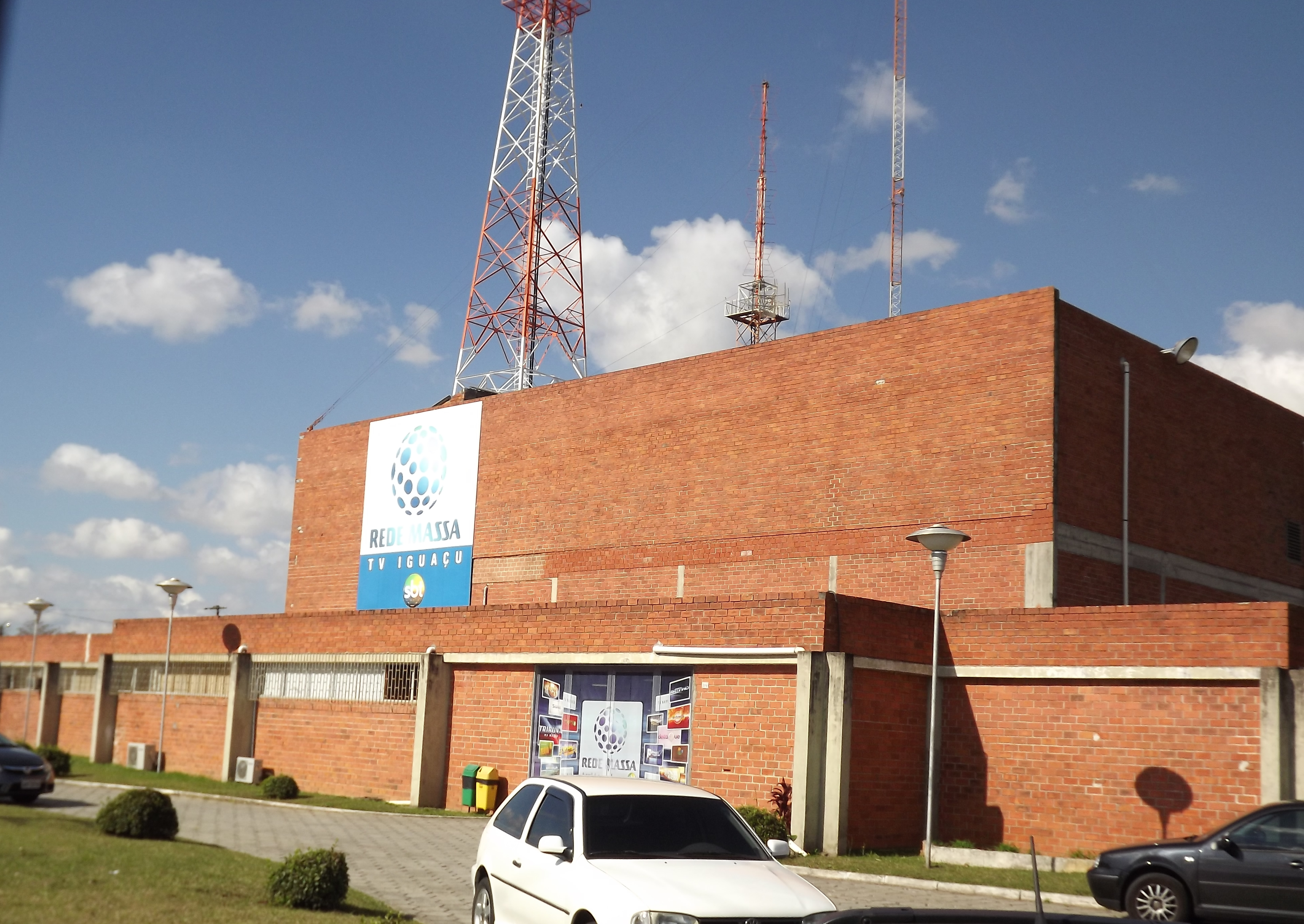 Headquarters of the Brazilian TV station TV Iguaçu, in Curitiba, State of Paraná.